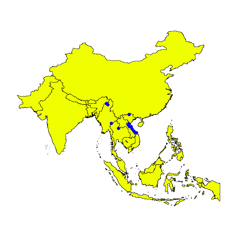 Livistona jenkinsiana occurrence data from (16th March 2019) GBIF Occurrence Download